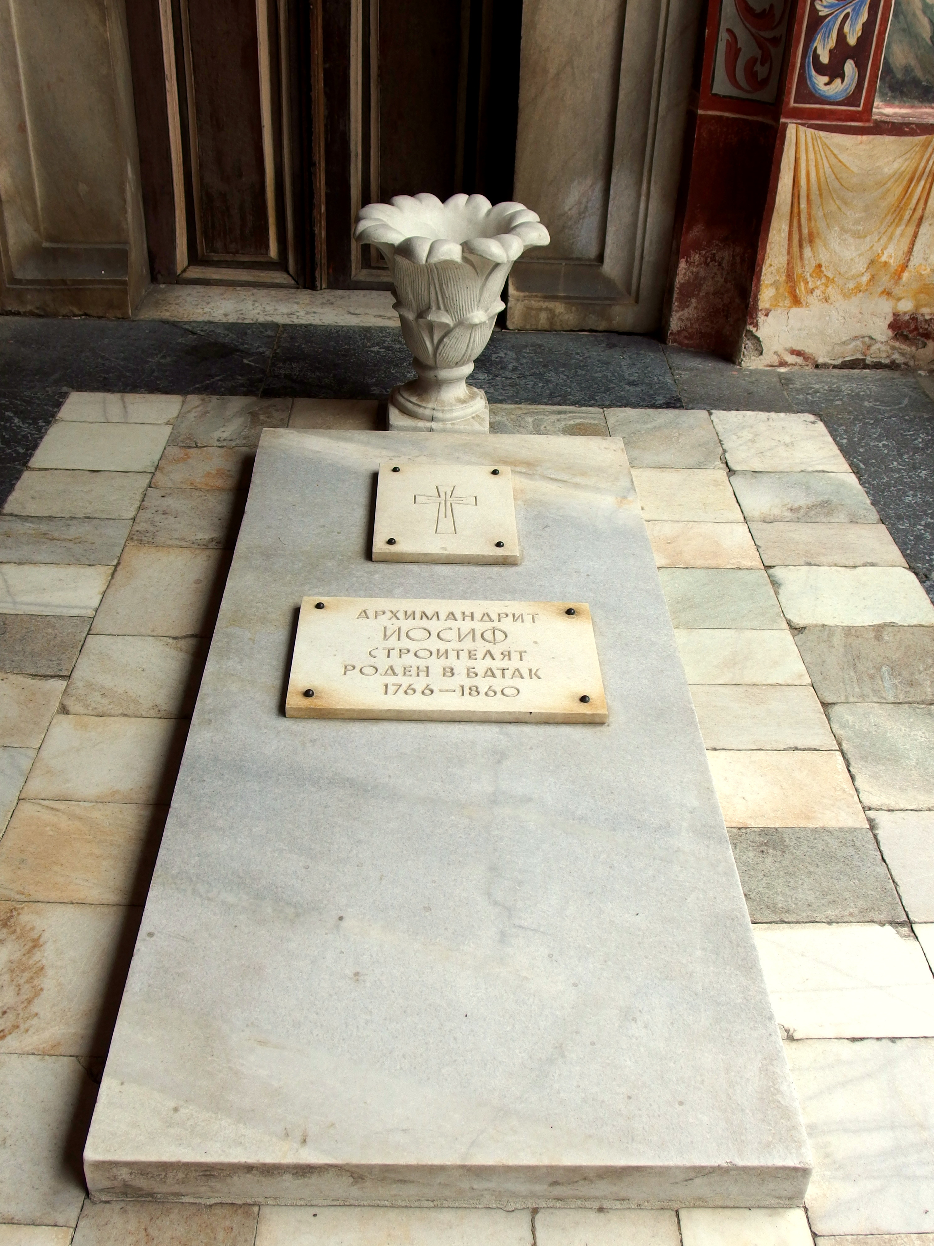 2014-06-17 at Rila Monastery.